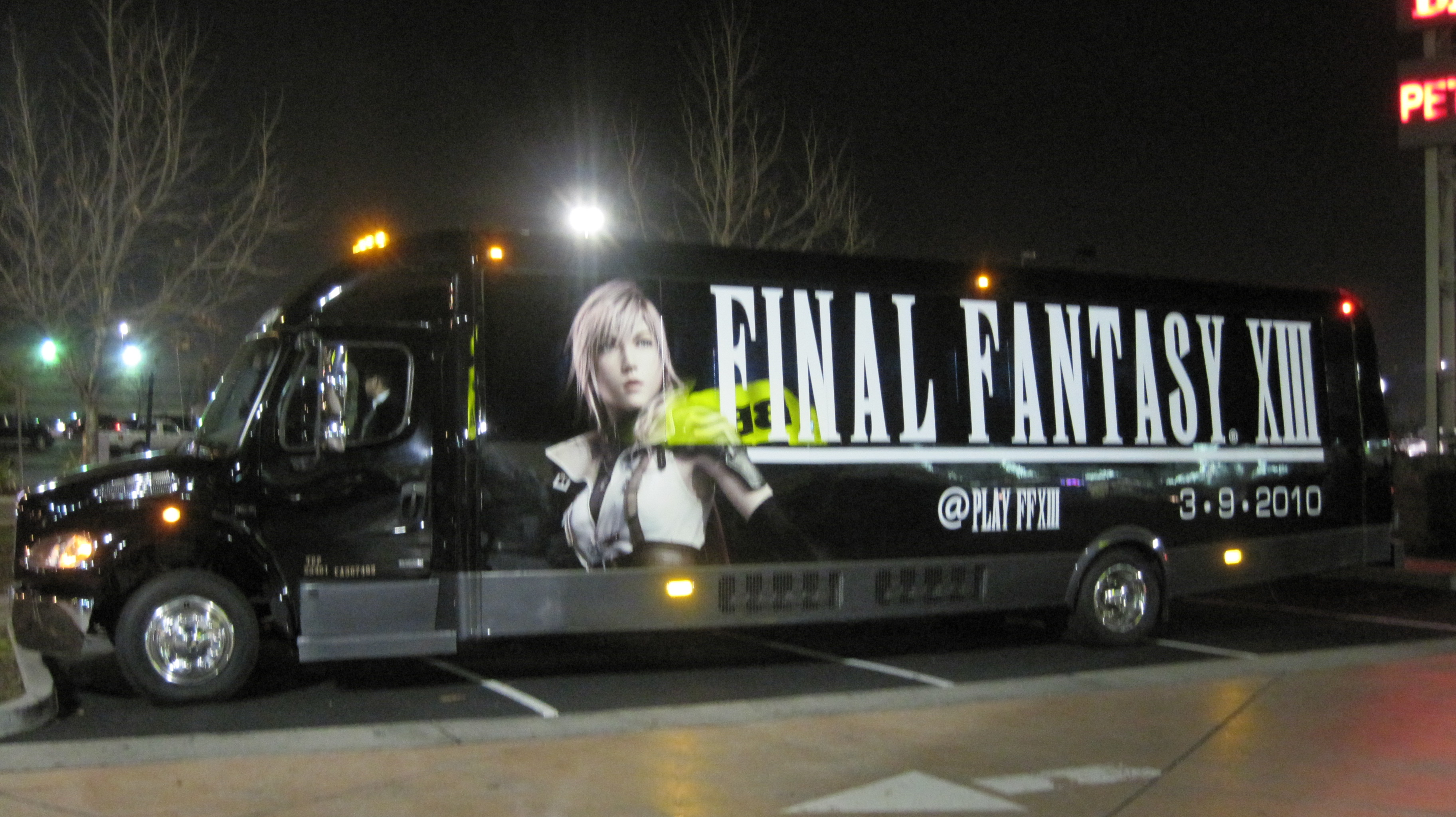 A Final Fantasy XIII demo van in the parking lot of Best Buy in Emeryville, California, featuring the protagonist, Lightning.